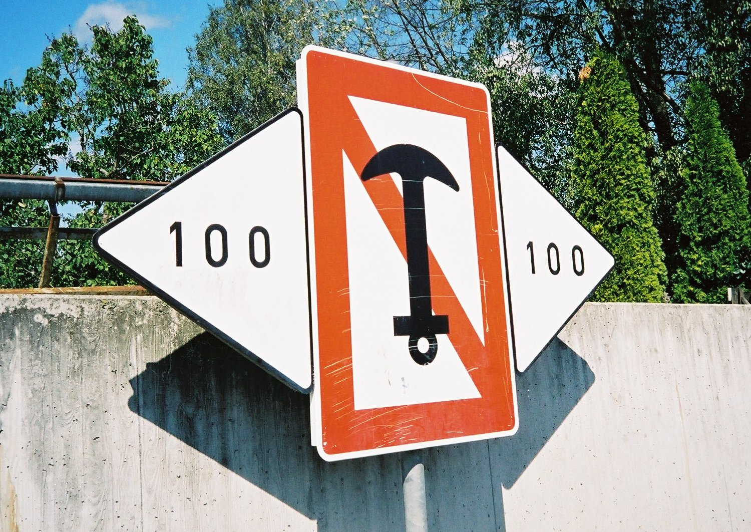 No anchoring (on German waterways)